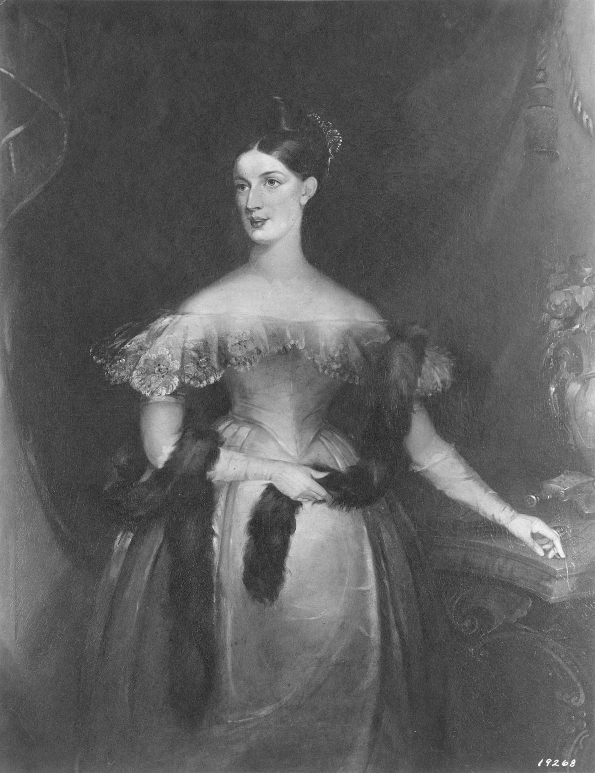 Title:Mrs. Robert B. Minturn (Anna Mary Wendell). Author/Artist:Harding, John Livingston, -1882 Creation Date:1837 Description:Graphic reproduction(s) with documentation of a painting. 57 x 31 in. oil on canvas.